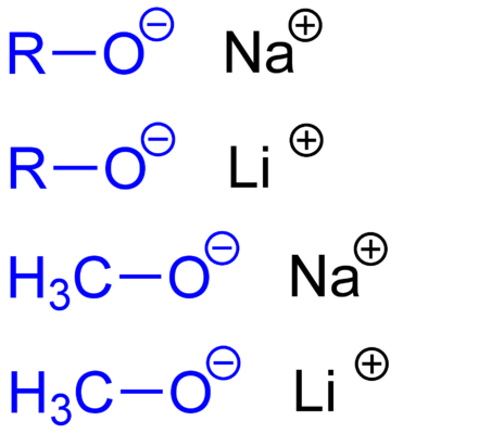 Alkoxide_General_Formulae